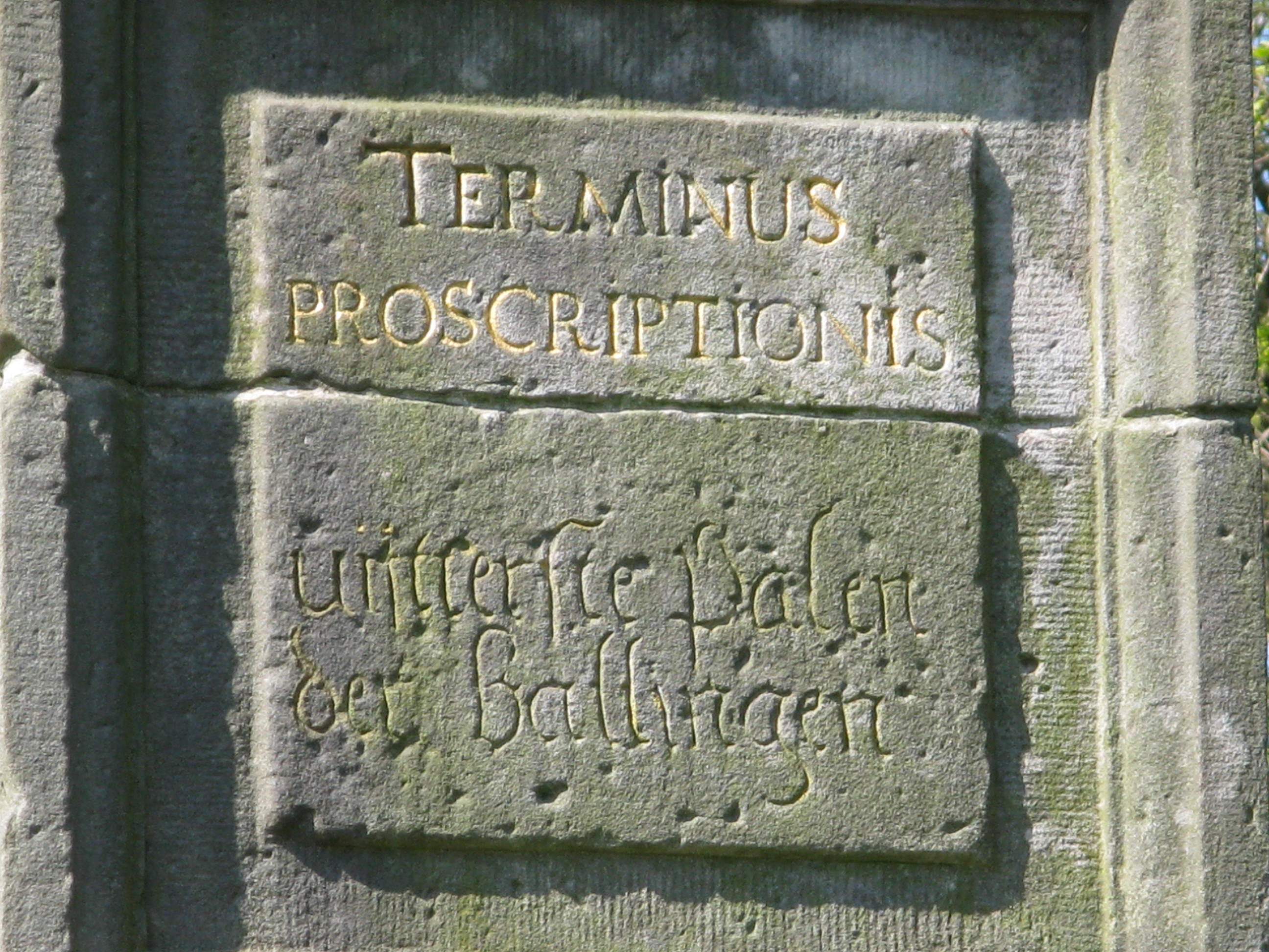 Inscription on border stone near Amsterdam